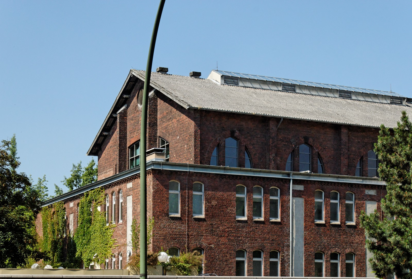 Münster-Therme in Düsseldorf-Pempelfort, Germany